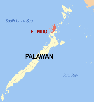 Map of Palawan showing the location of El Nido